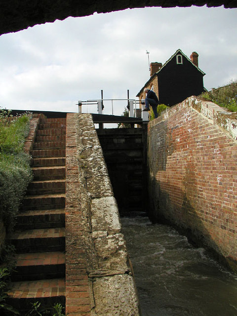 Somerton Lock and Cottage on the Oxford Canal in Oxfordshire. This part of the canal was completed and opened in 1787; the cottage was probably built early in the 19th century.